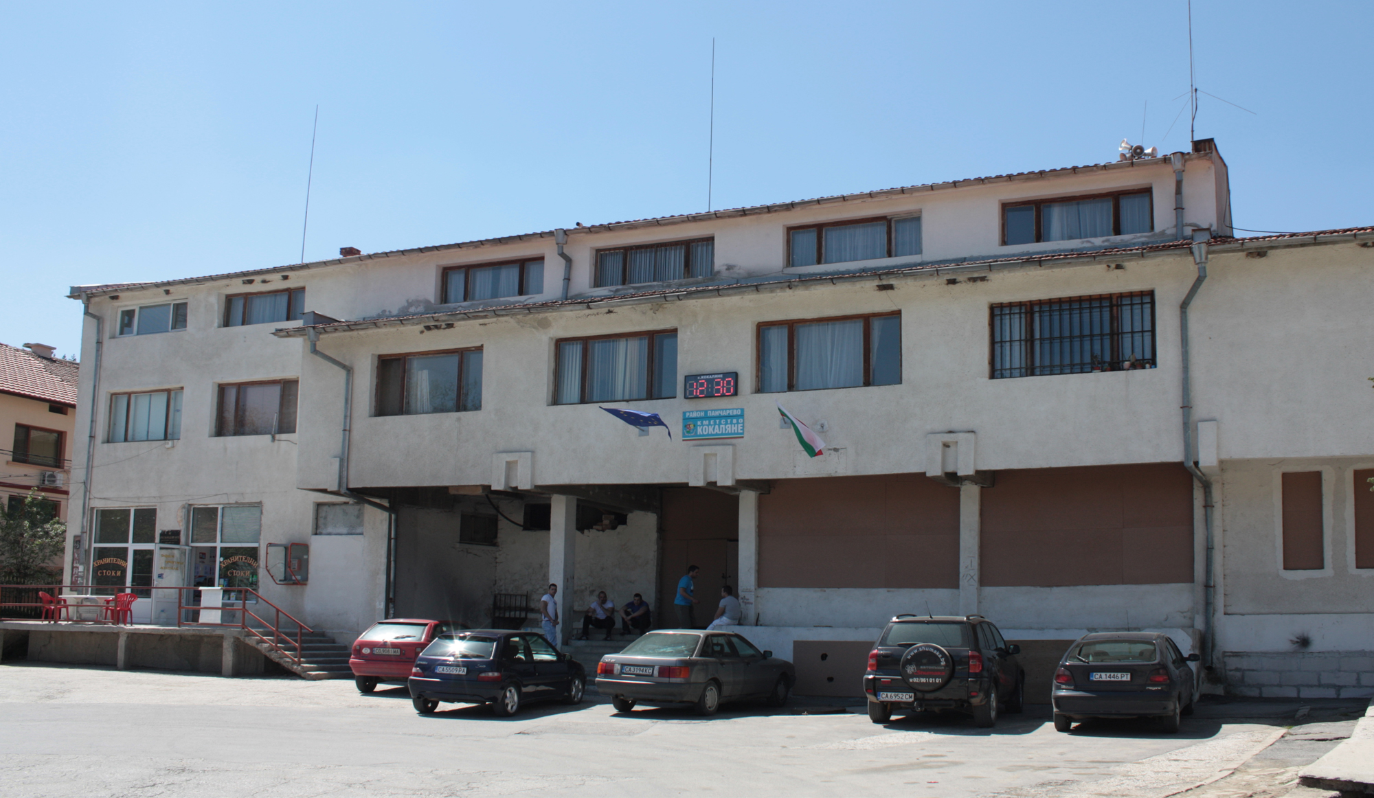 Kokalyane Municipality office